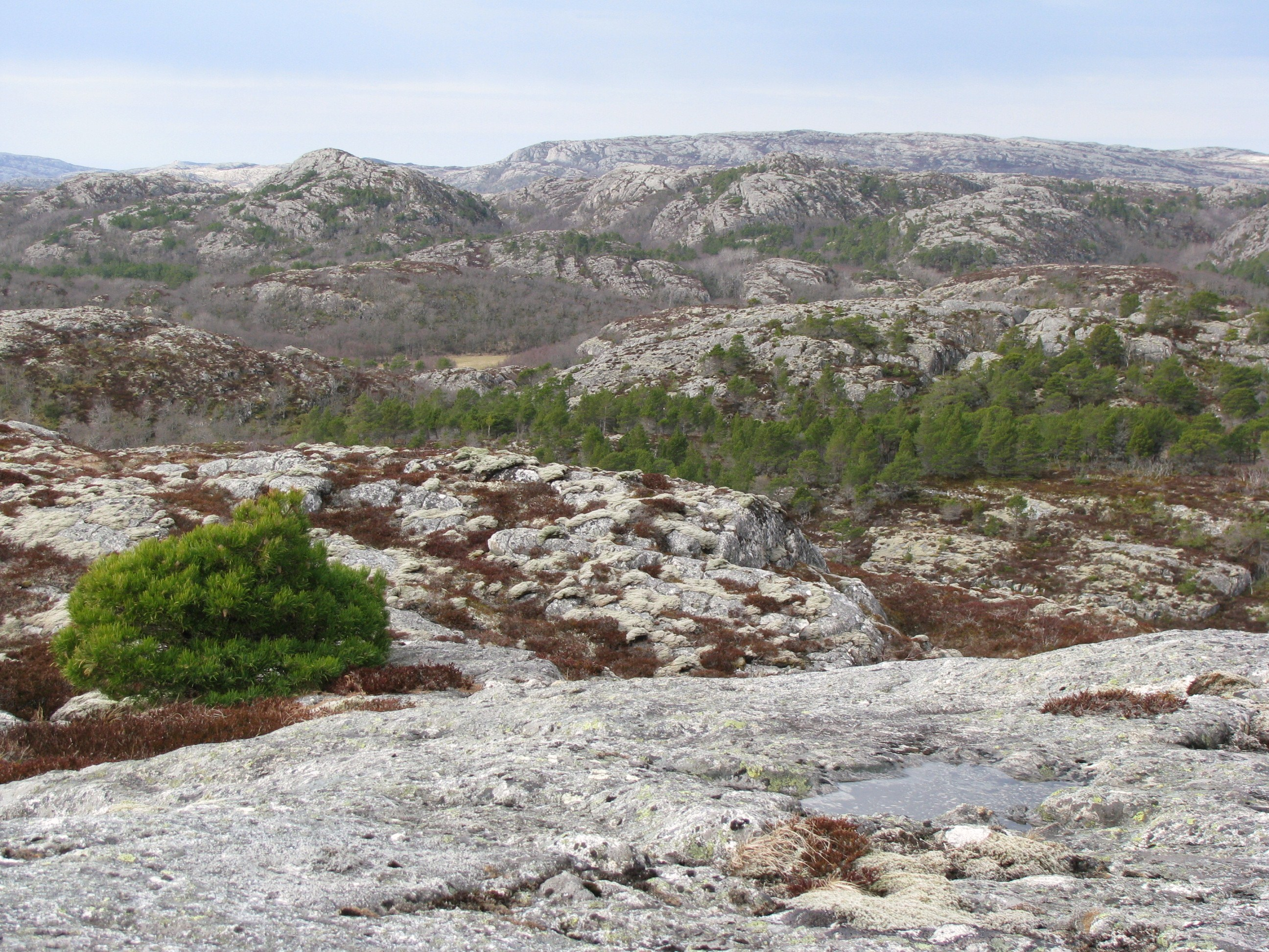 Landscape of the Vikna archipelago, Nord-Trøndelag county, central Norway. Notice the bare rock, scraped by ice age glaciers. Also notice the forest of coastal pine (Scots pine) and aspen (white due to no leafs in April) growing in the soil in the small valleys / hollows between the rocky hills. Picture taken 11. April 2009.